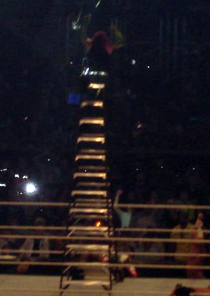 Jeff Hardy on a ladder at WrestleMania 23, preparing to jump out of the ring and onto Edge through a ladder. (Cropped from flickr)